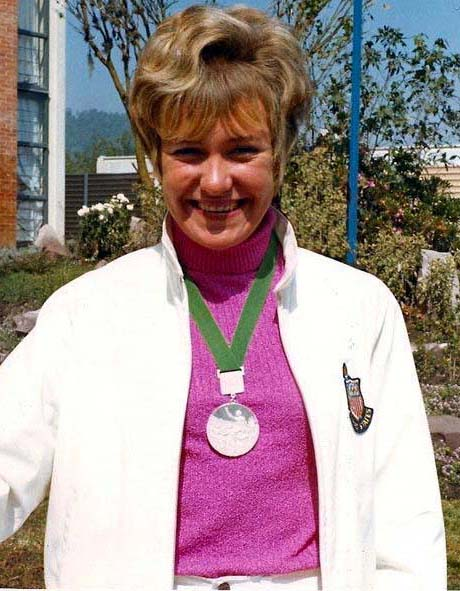 British athlete Lillian Board at the 1968 Mexico Olympics with the silver medal she won at 400 metres.